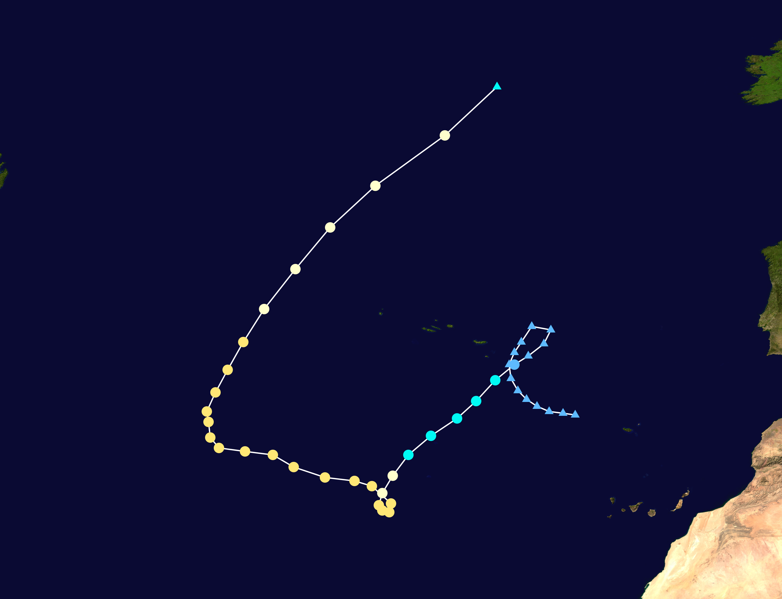 Hurricane Ivan (1980) track. Uses the color scheme from the Saffir-Simpson Hurricane Scale.